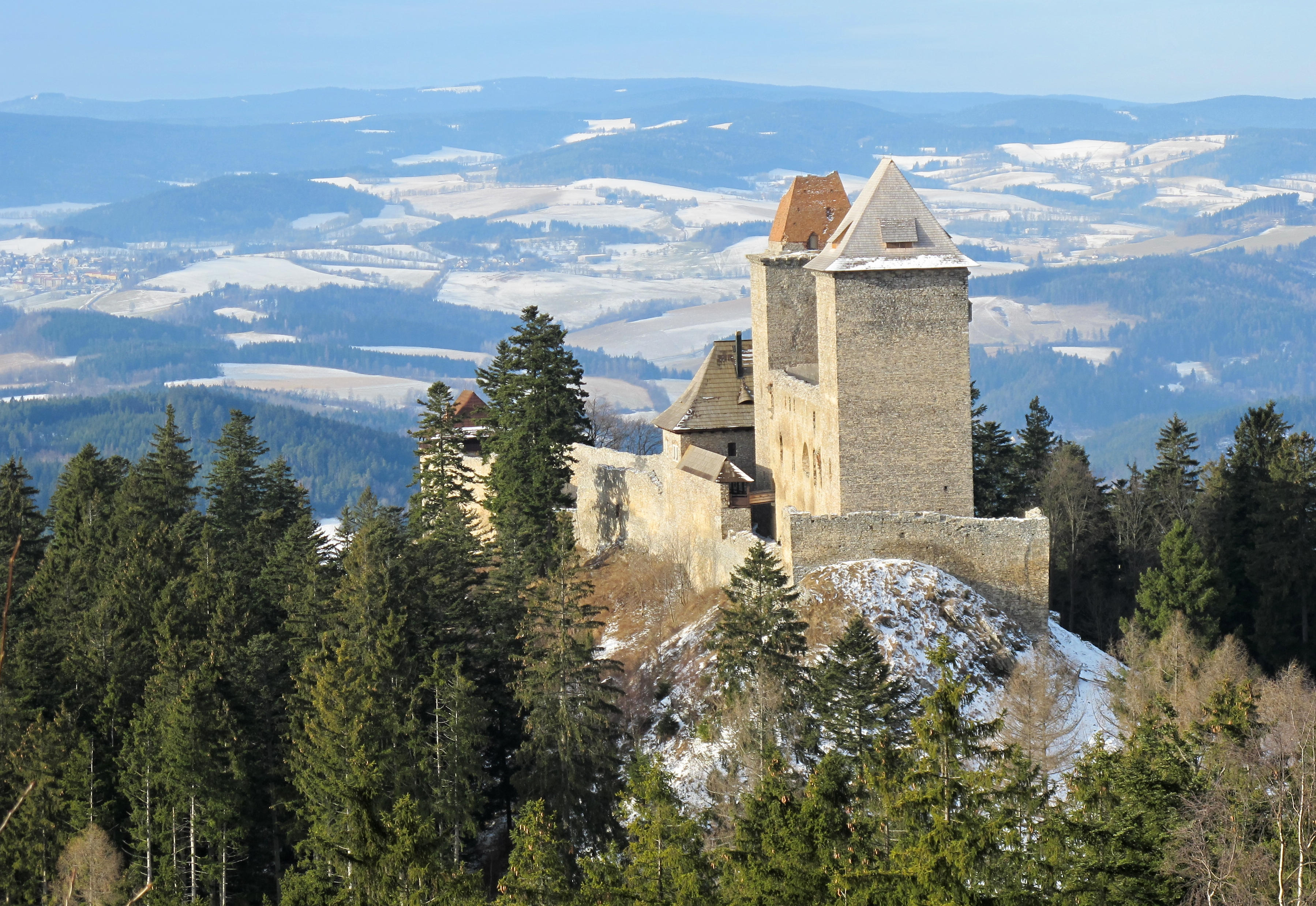 Kašperk Castle near Kašperské Hory; nature park Kašperská vrchovina, Klatovy District in Czech Republic